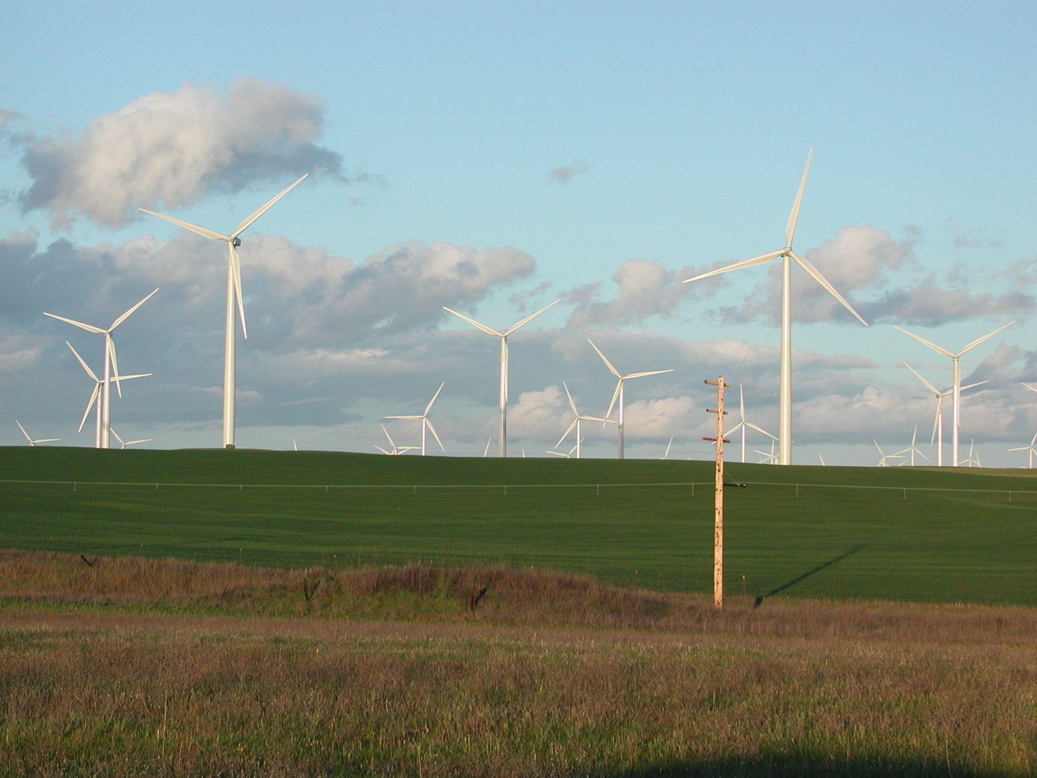 General Electric 1.5 MW wind turbines of the Shiloh Wind Power Plant in Solano County, California.